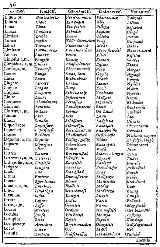 Faust Vrančić, Dictionarium quinque nobilissimarum Europae linguarum, latinae, italicae, germanicae, dalmaticae et ungaricae, page 56